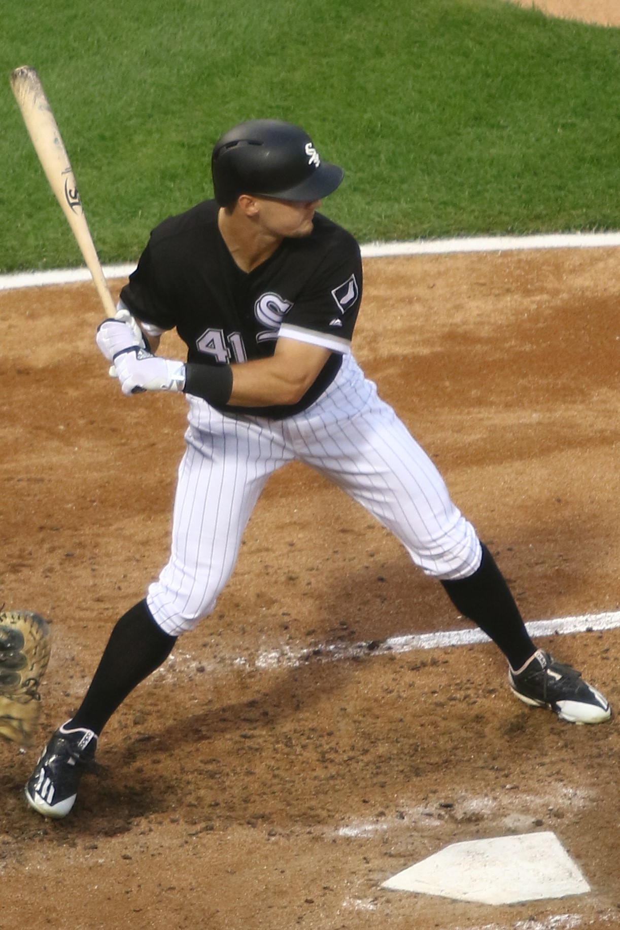 Adam Engel for the 2017 Chicago White Sox